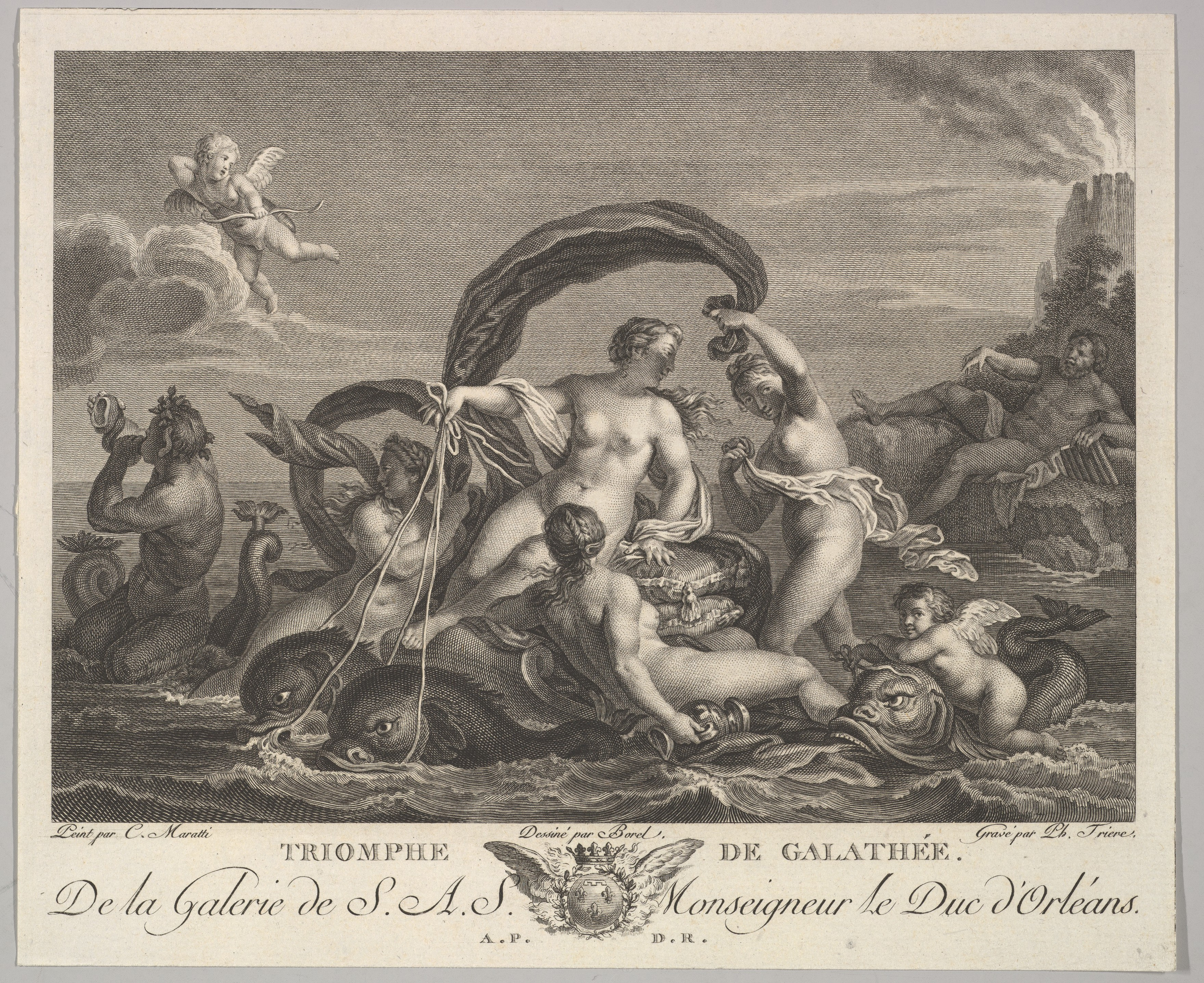 Print; Prints